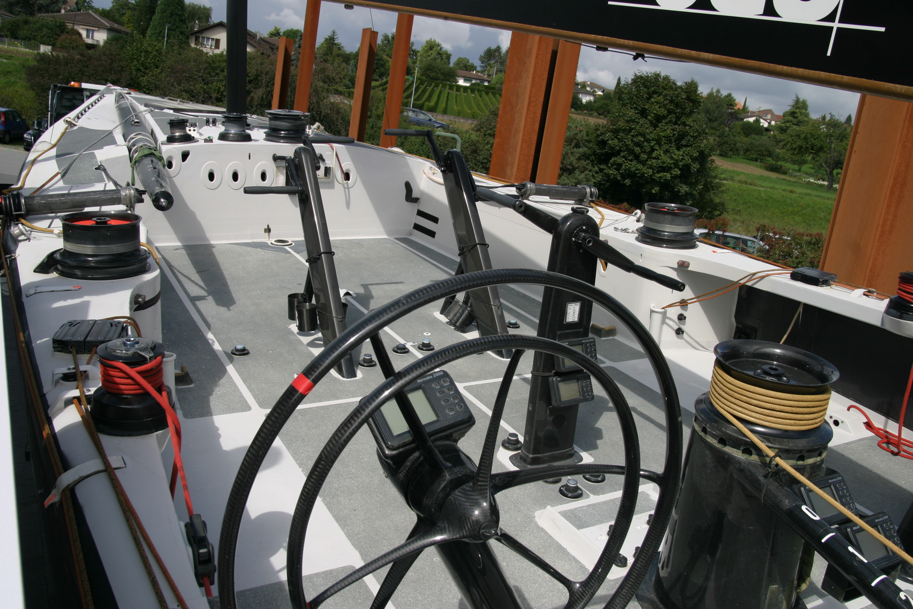 Alinghi on display at the EPFL, 30th of August 2006